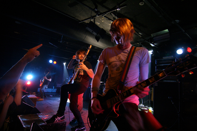 IMG_4115PoisonTheWell